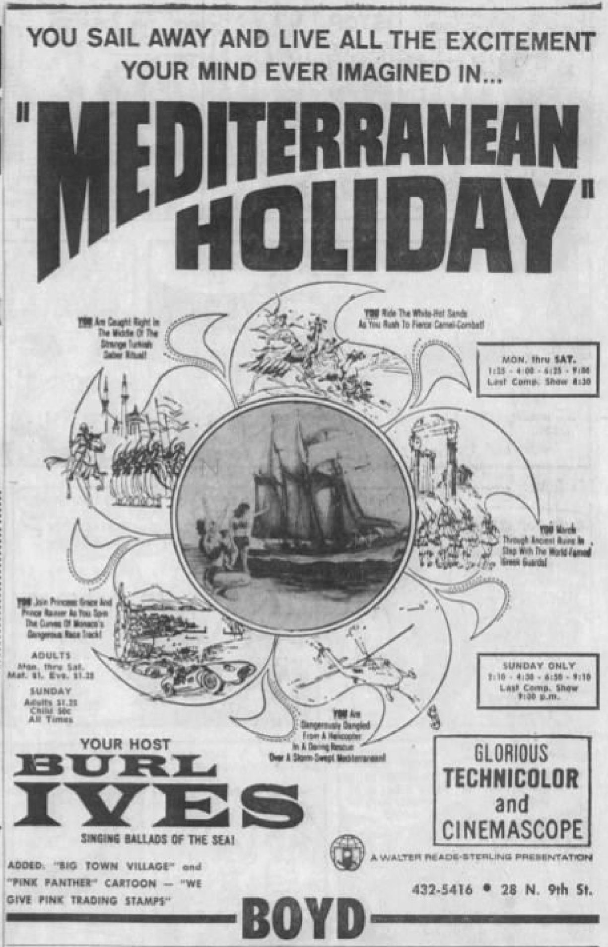 Boyd Theater, American advertisement for the United States 1964 version of the German documentary film Traumreise unter weissen Segeln (1962) under its U.S. title Mediterranean Holiday - 14 May 1965 Morning Call, Allentown PA